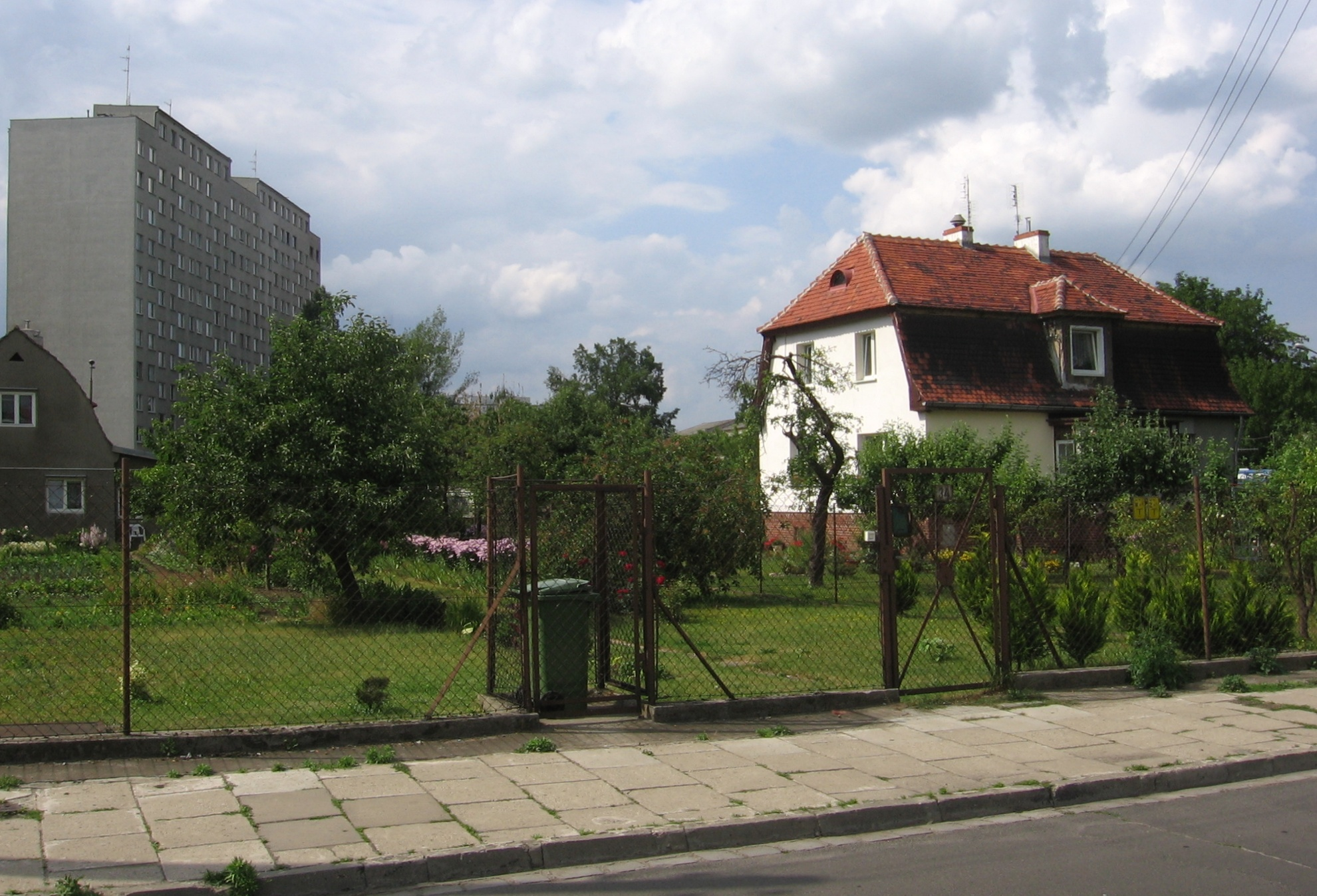 Wrocław, Poland: Czeska street, settlement Różanka/Ligota foreground - small houses, presumably of 1930's background - 11-flights building of 1980's